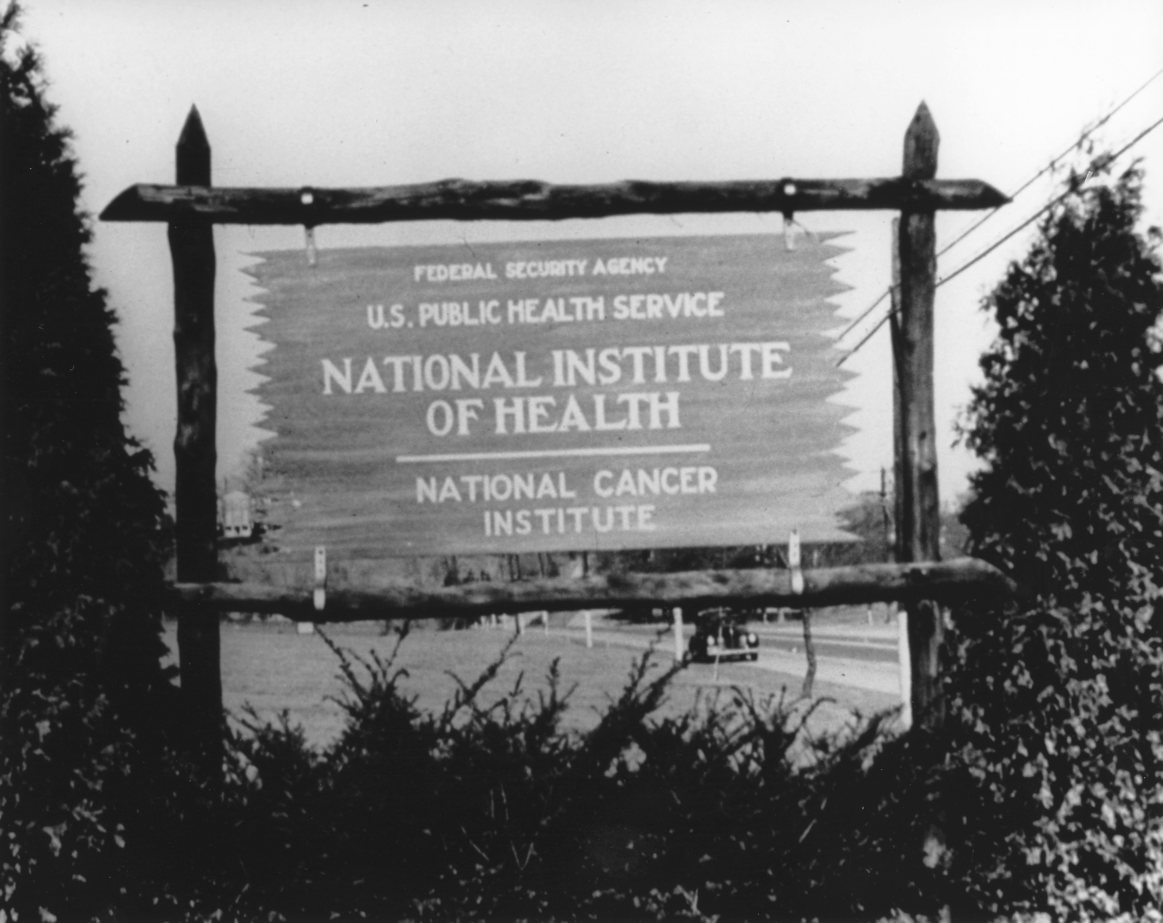 Title Wooden Sign Description National Institutes of Health (NIH), National Cancer Institute (NCI) wooden sign. Topics/Categories Historical, Graphics Type B&W, Photo Source National Cancer Institute